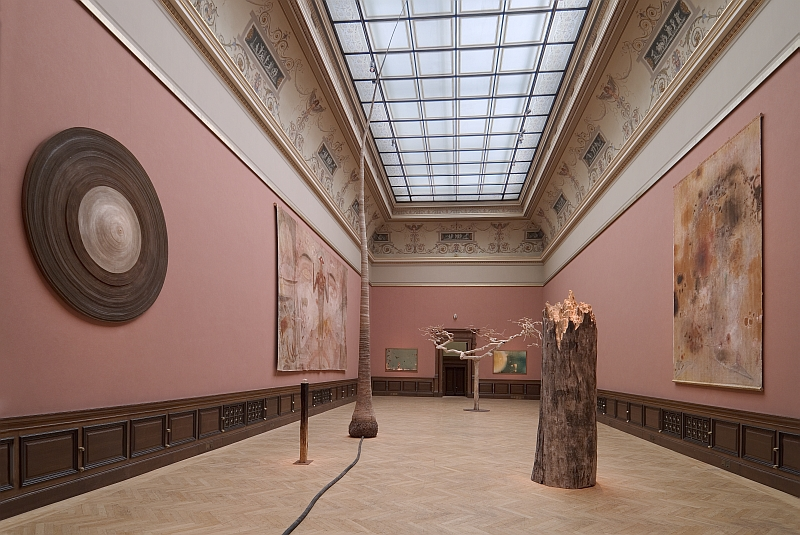 Exhibition of František Skála